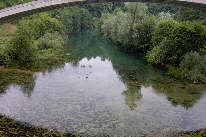 River Slunjcica at Slunj, Croatia. Summer 2004. Uploaded by user Neoneo13.